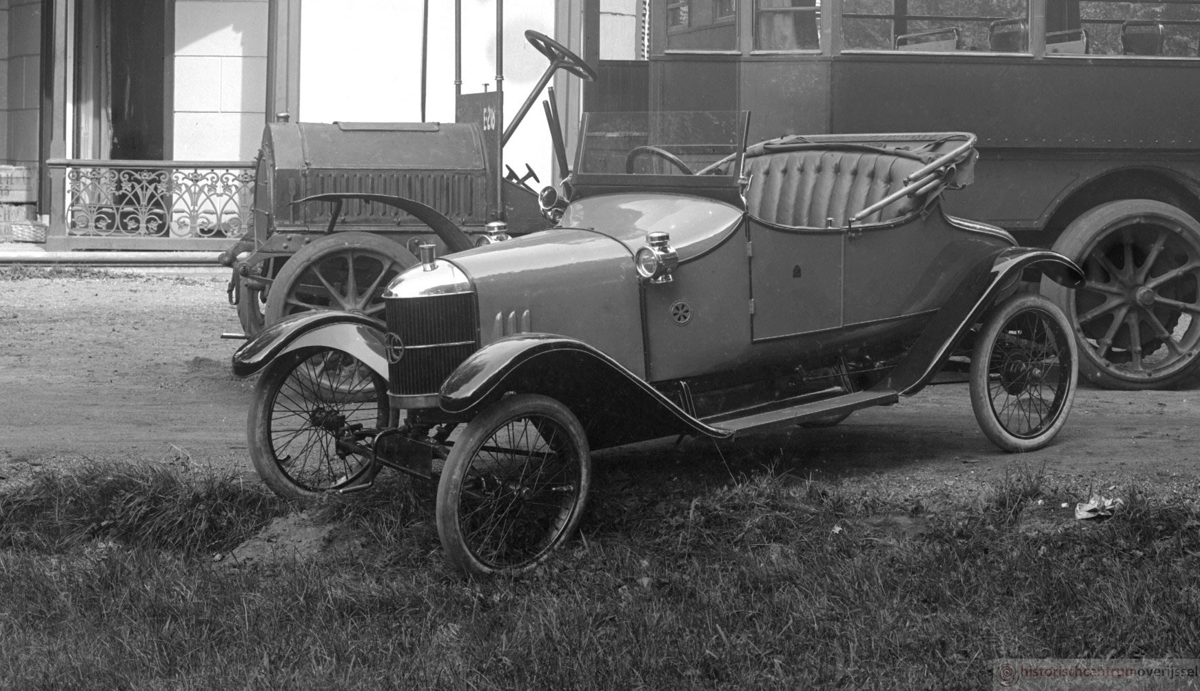 AC Ten horsepower circa 1914 personenauto van Hofstede Crull, achter de HEEMAF kantoor-villa